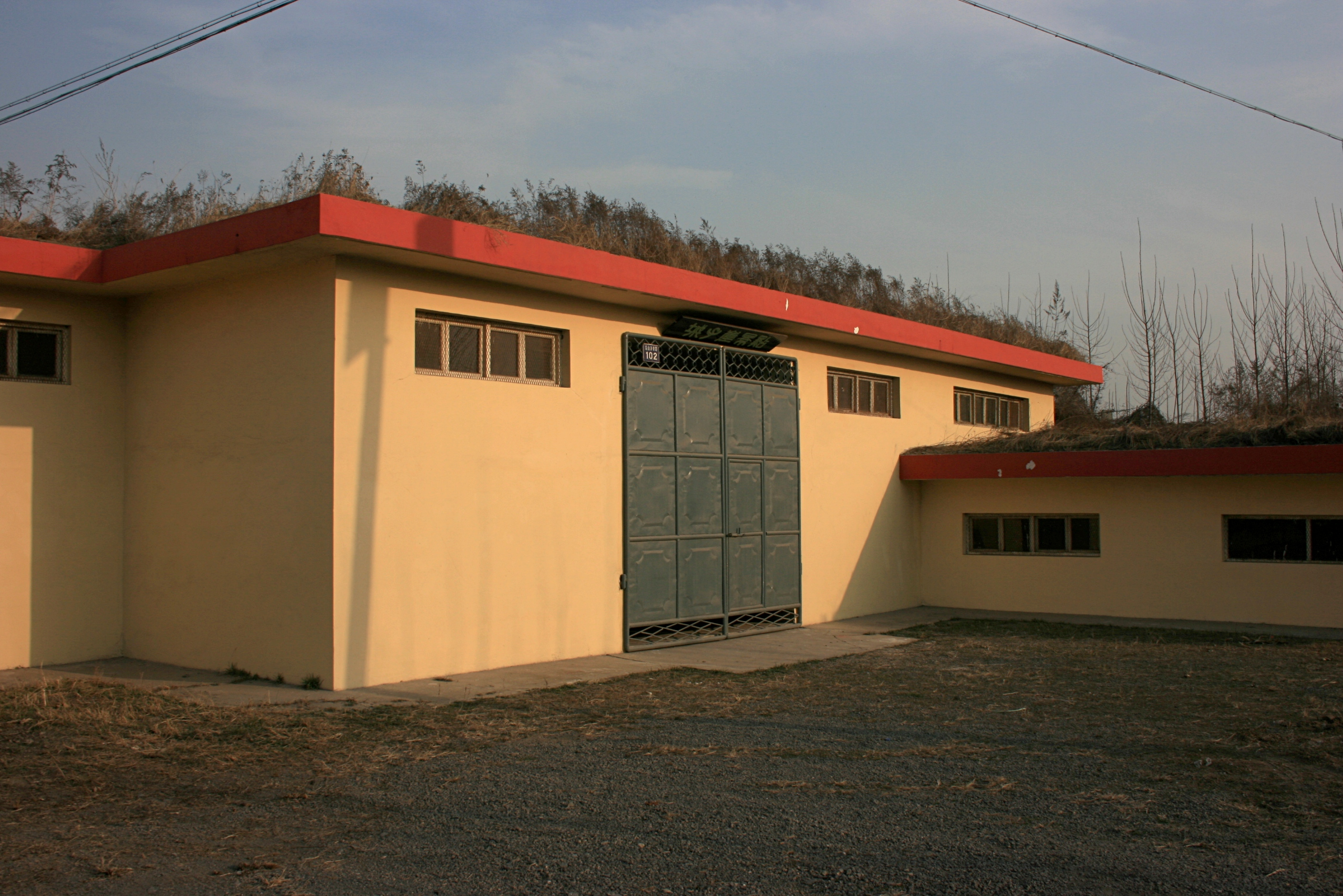 Photograph of building protecting the excavation site at the Chengziya Archaeological Site, between Jinan and Zhangqiu City, Shandong, China.